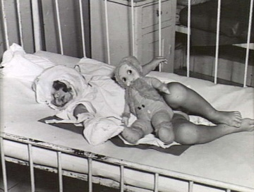 1940-09-10. TEL AVIV - A VICTIM OF THE RUTHLESS CIVILIAN RAID OF ITALIAN BOMBERS IN THE HADAS MUNICIPAL HOSPITAL. (NEGATIVE BY D. PARER).